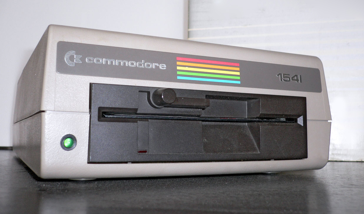 A Commodore 1541 5.25" floppy disk drive- standard retail version (aftermarket modifications removed with PhotoShop).